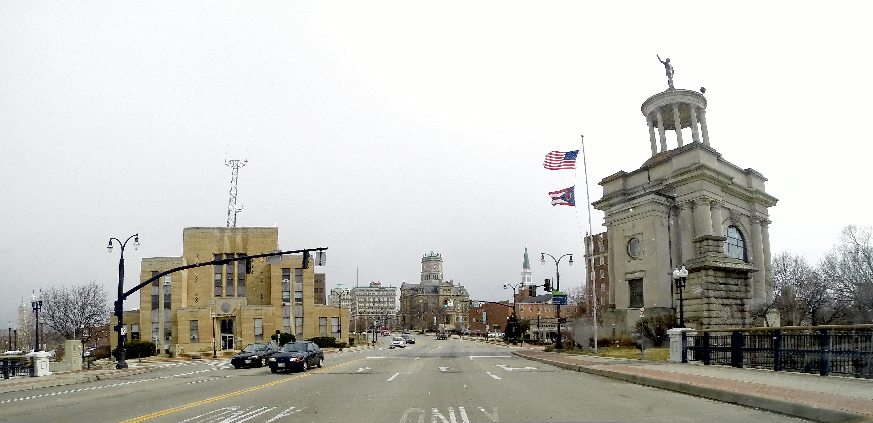 View of downtown Hamilton from the bridge over the Miami River